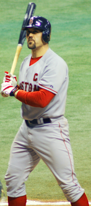 Photo by Googie Man 08:35, 1 May 2006 . . Googie man . . 312×700 (240,022 bytes)